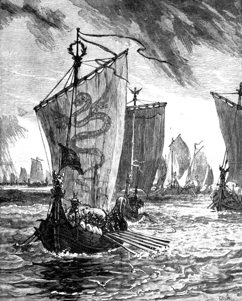 A romanticised depiction of the Viking king Anlaff leading his fleet up the Humber before the Battle of Brunanburh in 937.